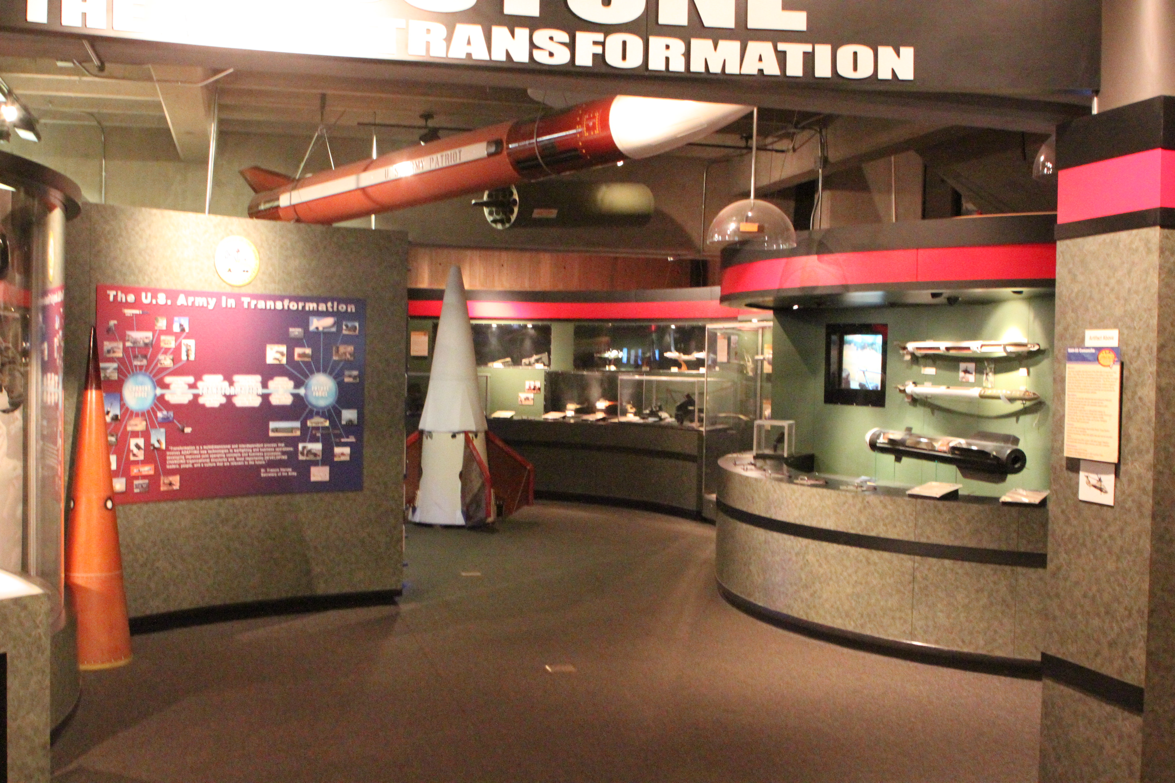 A PATRIOT missile and others are on display at the U.S. Space & Rocket Center